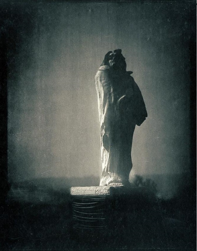 Picture of Auguste Rodin's sculpture of Honoré de Balzac.